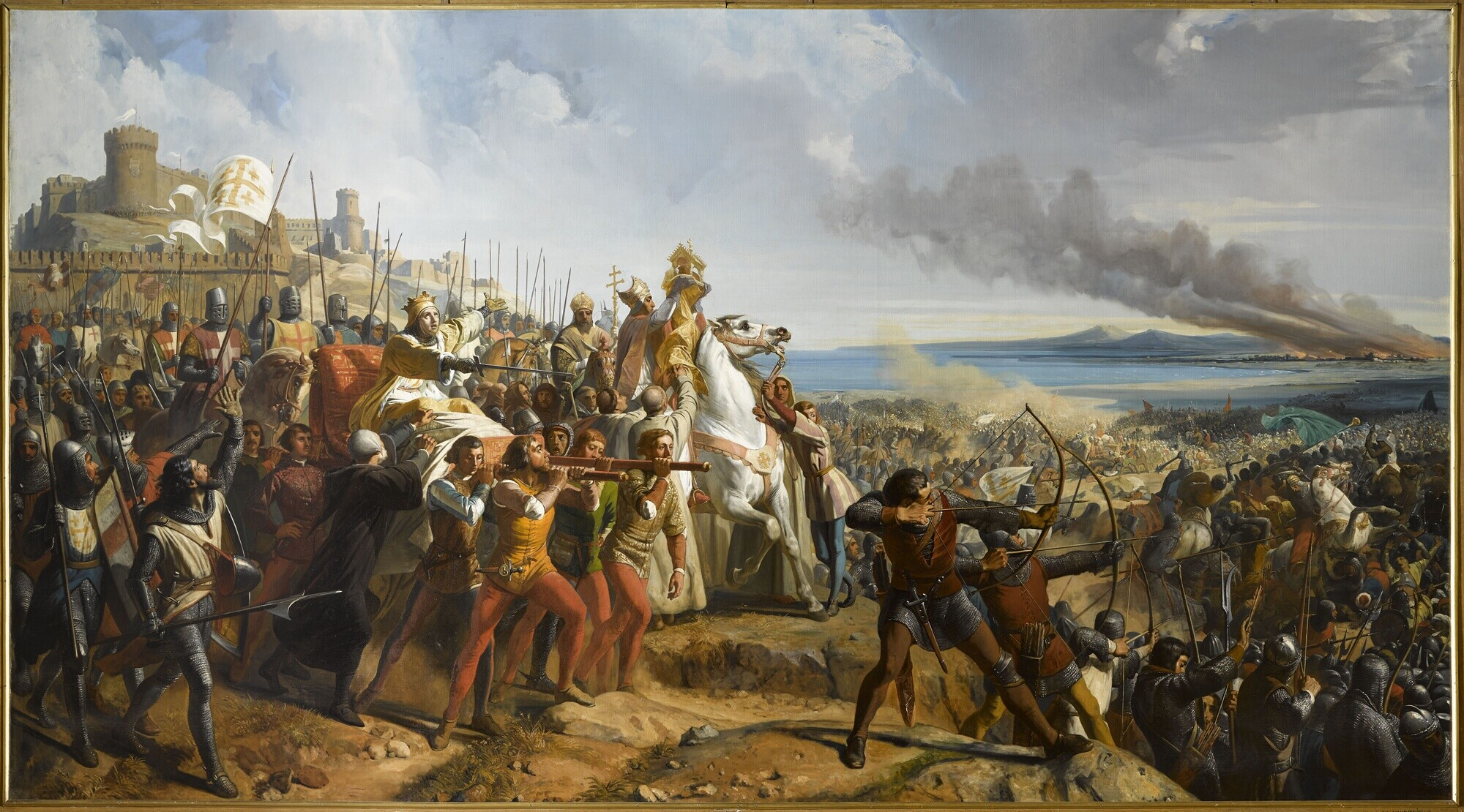 Battle between Baldwin IV and Saladin's Egyptians, November 18, 1177.